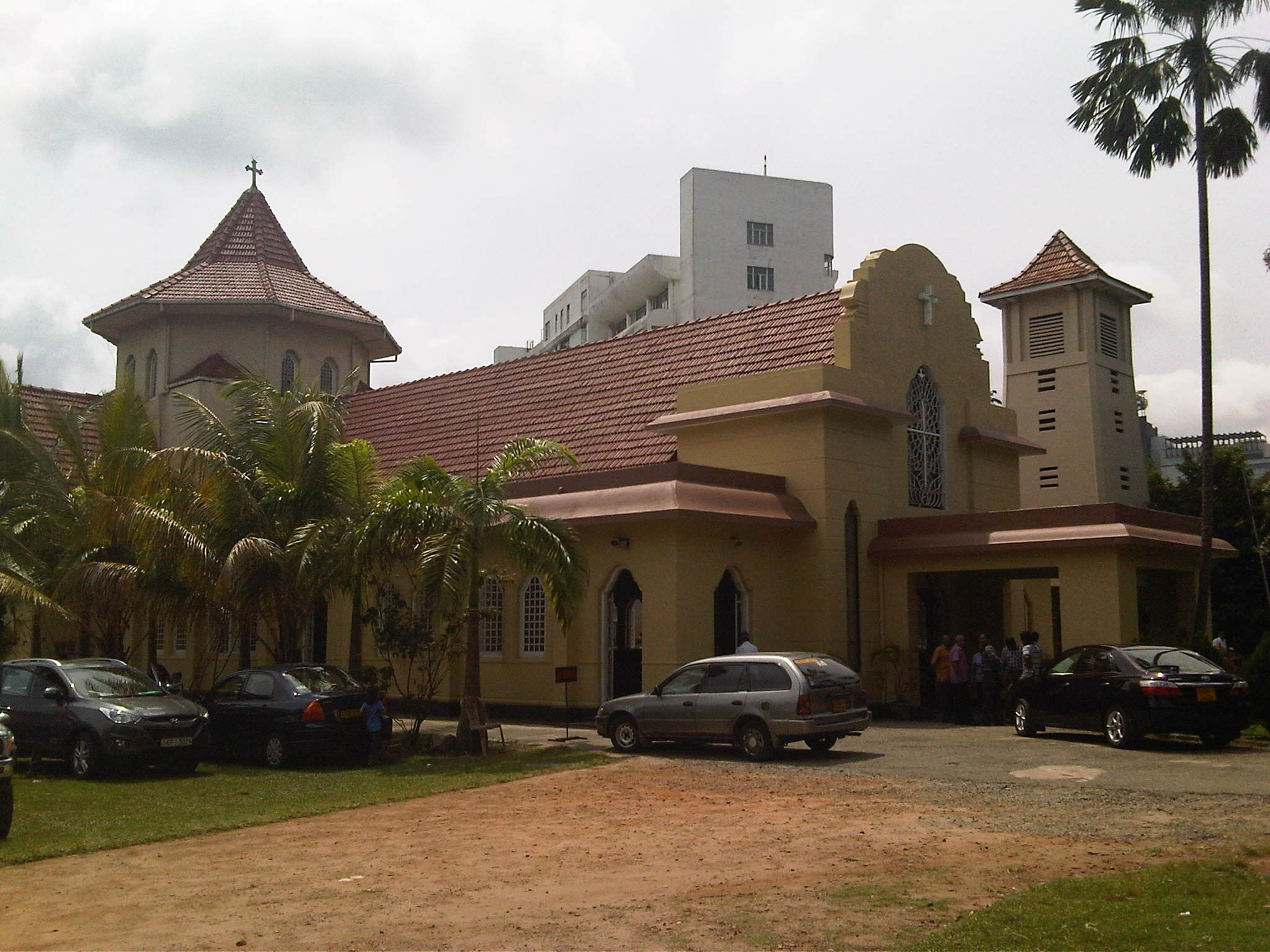 St.Luke's Church, Borella situated in Colombo, Sri Lanka. The church is a classic example of Sinhala architecture. The entire church building was designed by Reverend Canon Ivan Corea who was vicar of St.Luke's Church for 25 years - from 1929-1954. Canon Corea's designs were all freehand.